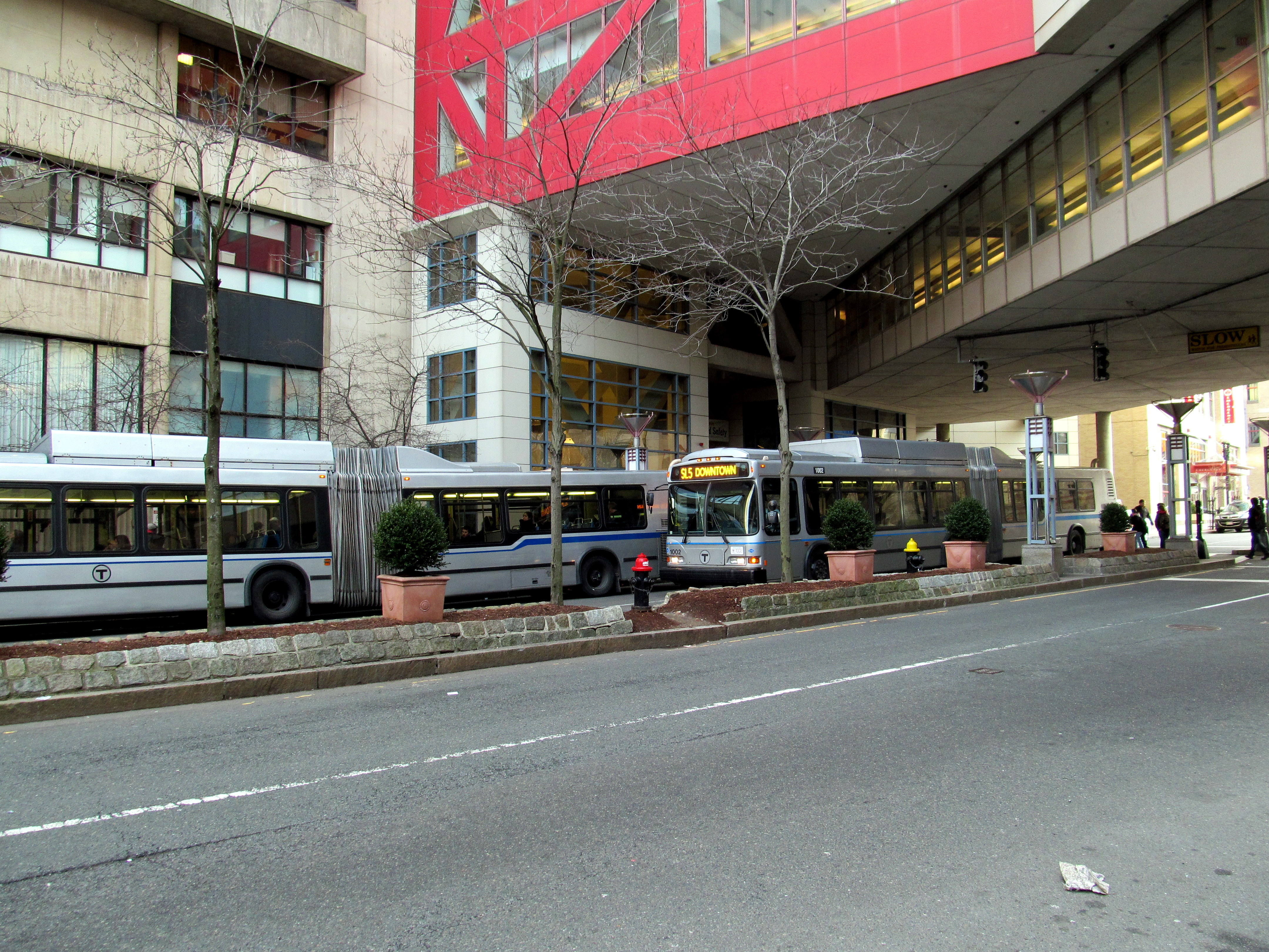 Two inbound Silver Line buses at Tufts Medical Center